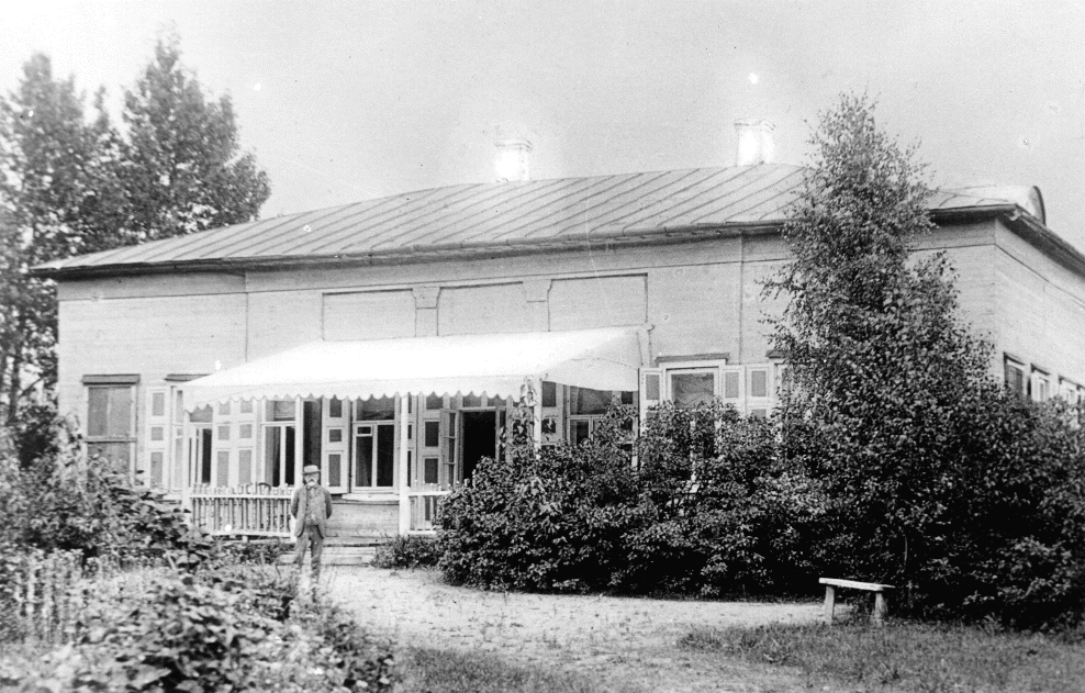 Tchaikovsky, in front of his house near Klin, at Frolovskoye.